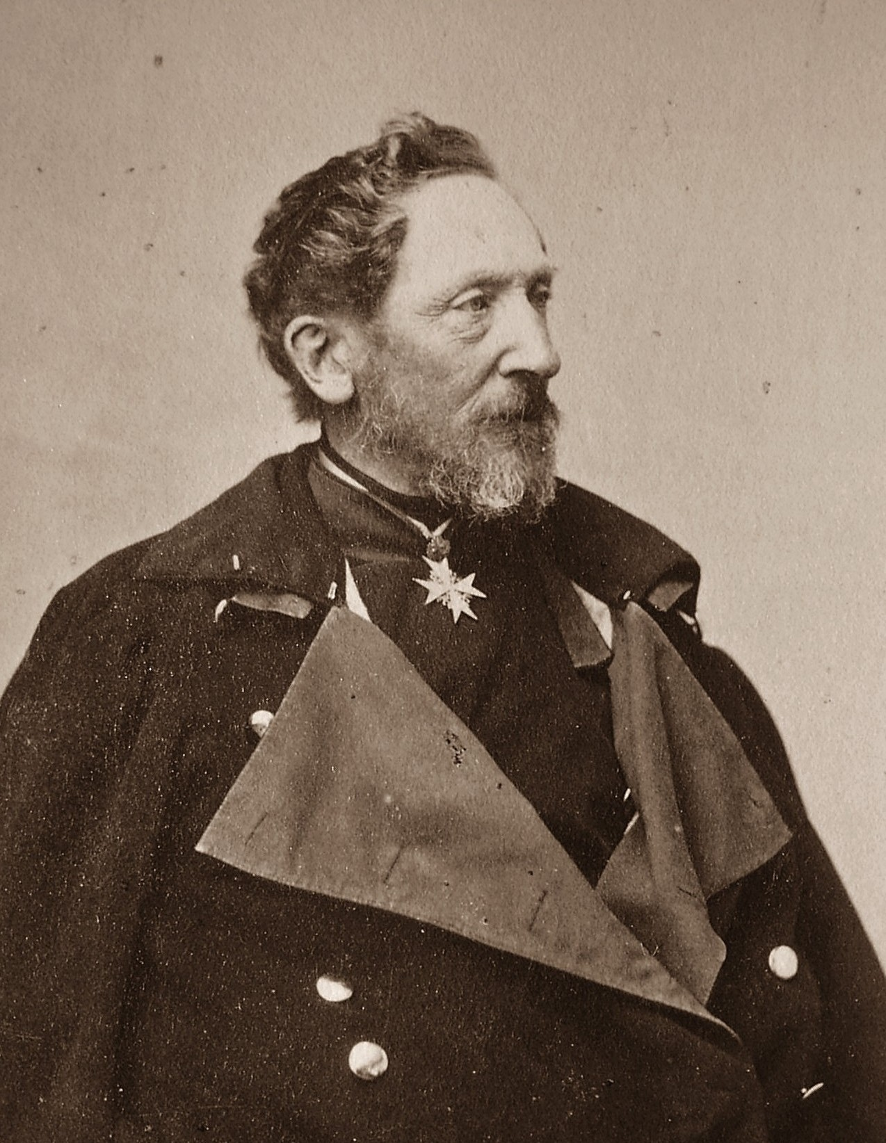 Portrait of Leonhard Graf von Blumenthal (1810-1900), Prussian Field Marshal.